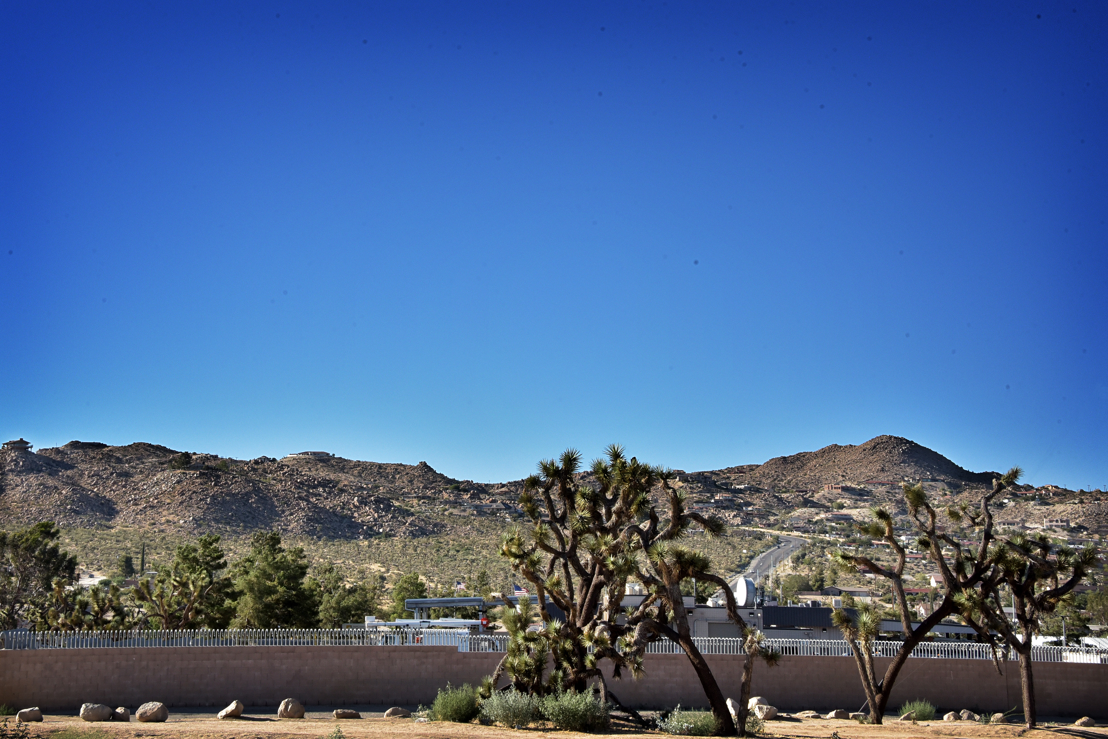 Yucca Valley looking north from the intersection of Hwy 62 and Hwy 247 - Photo by Glenn Francis of